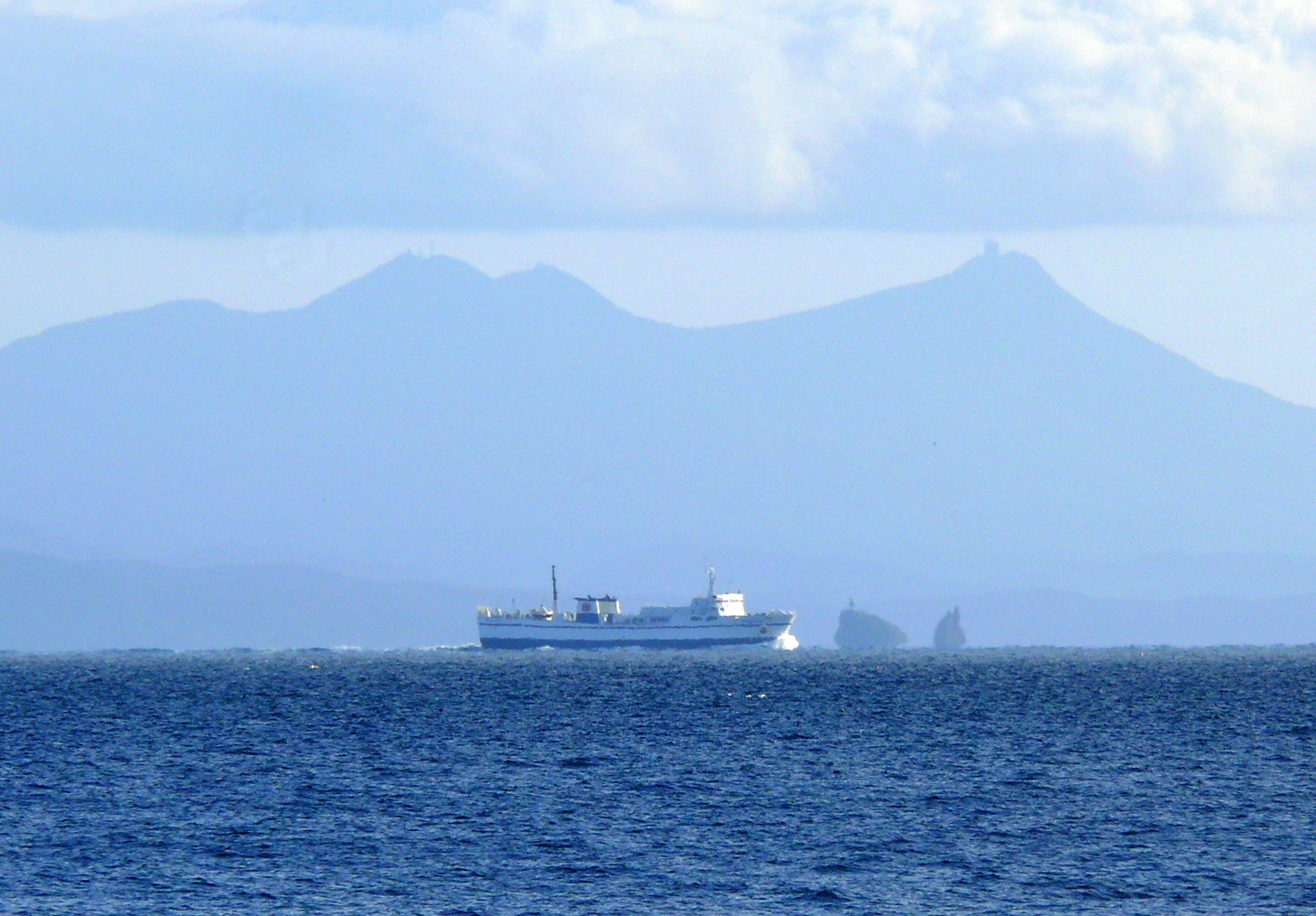 Seikan Ferry 3gou-Hayabusa in Mutu Bay(Japan). IMO number: Callsign